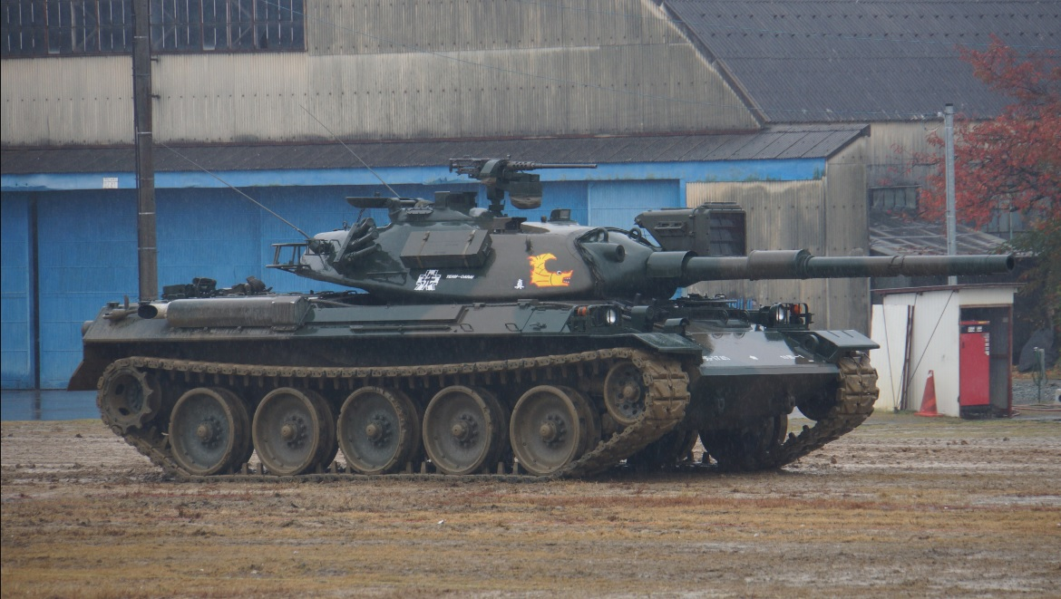 Тип74 2